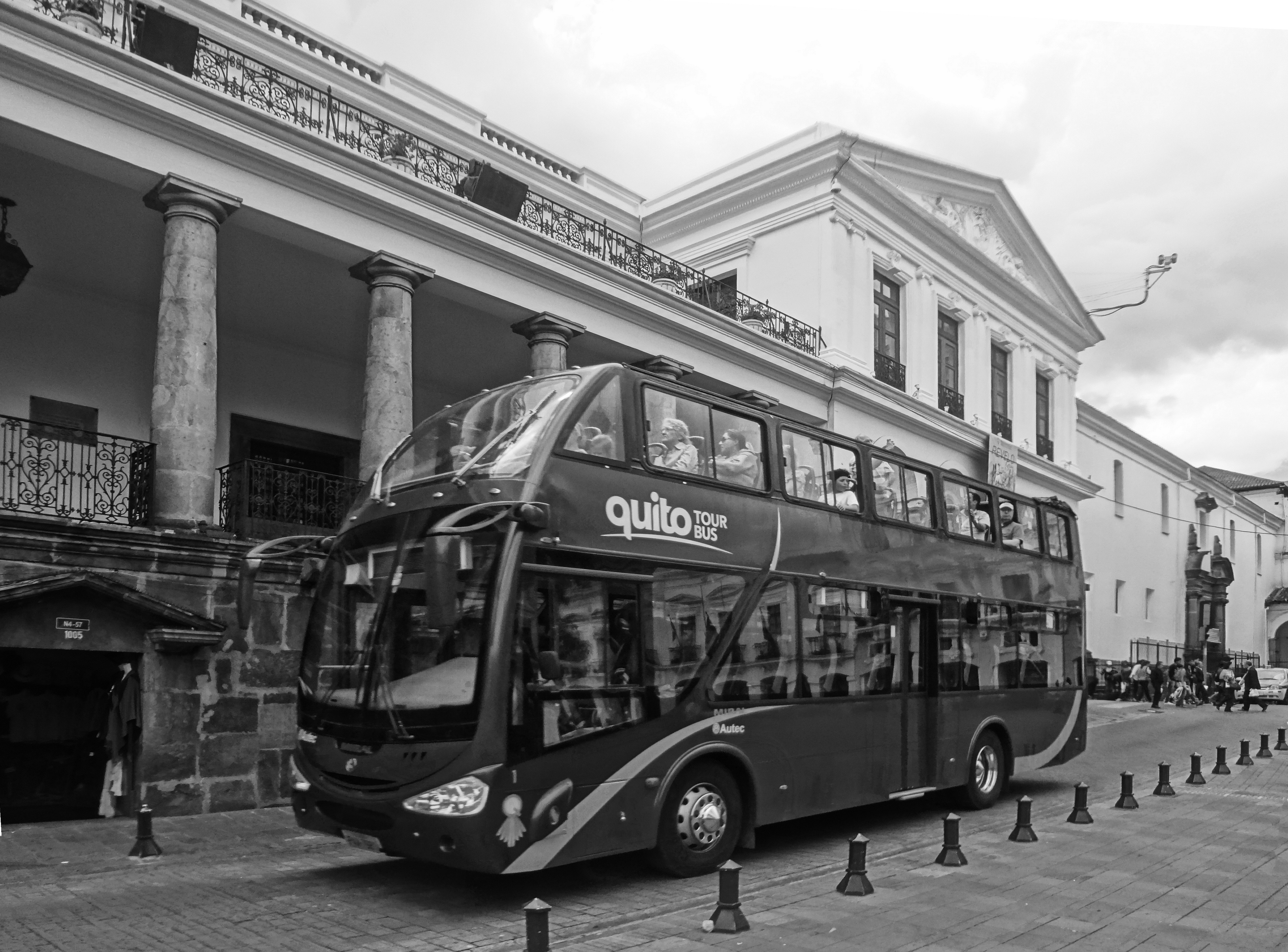 A double decker tourist bus infront of the presidential palace, the official residence of the president (Carondelet Palace) and is the seat of government of the Republic of Ecuador). A UNESCO World Heritage Site that stretches over 790 acres and contains 130 monumental buildings, 5,000 smaller properties and numerous 400̟ plus year old Churches and Convents.